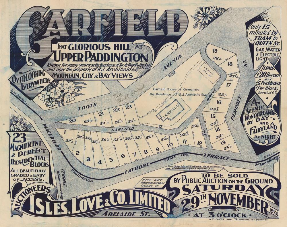 Estate map of Garfield, Paddington, Brisbane, Queensland, 1924 Estate map showing allotments to be sold on 29th November 1924 by Isles, Love & Co., auctioneers. The plan was surveyed by Harry Raff. The estate owned by R. J. Archibald was previously known as the residence of Sir Arthur Rutledge. The land covered an area between Latrobe Terrace, Macgregor Street, Tooth Street and Garfield Drive.